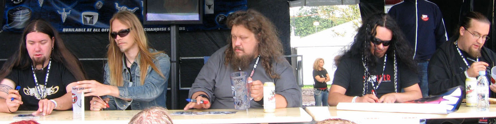 Finntroll Meet & Greet at the Wacken Open Air 2005.Line-up 2005 from left to right.: Mikael „Routa“ Karbom, Samuli „Skrymer“ Ponsimaa, Tapio Wilska, Sami „Tundra“ Uusitalo, Samu „Beast Dominator“ Ruotsalainen.